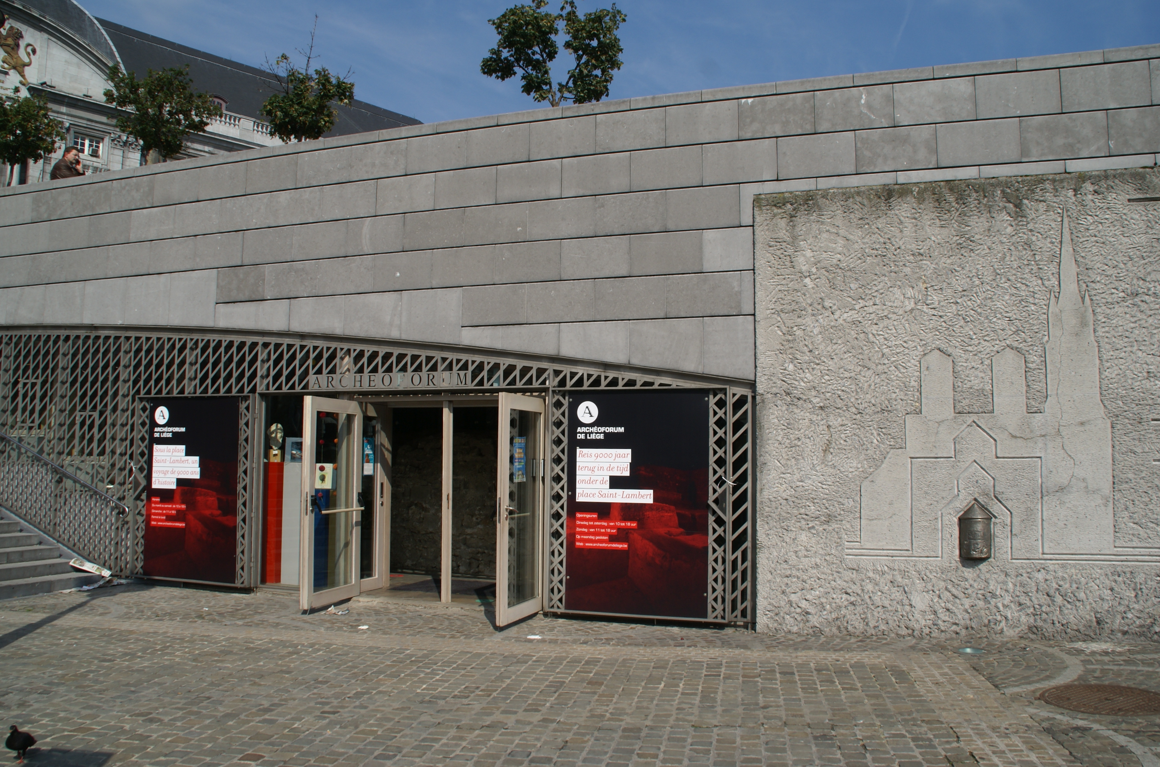 Liège, Belgium: Entry of the Archeoforum